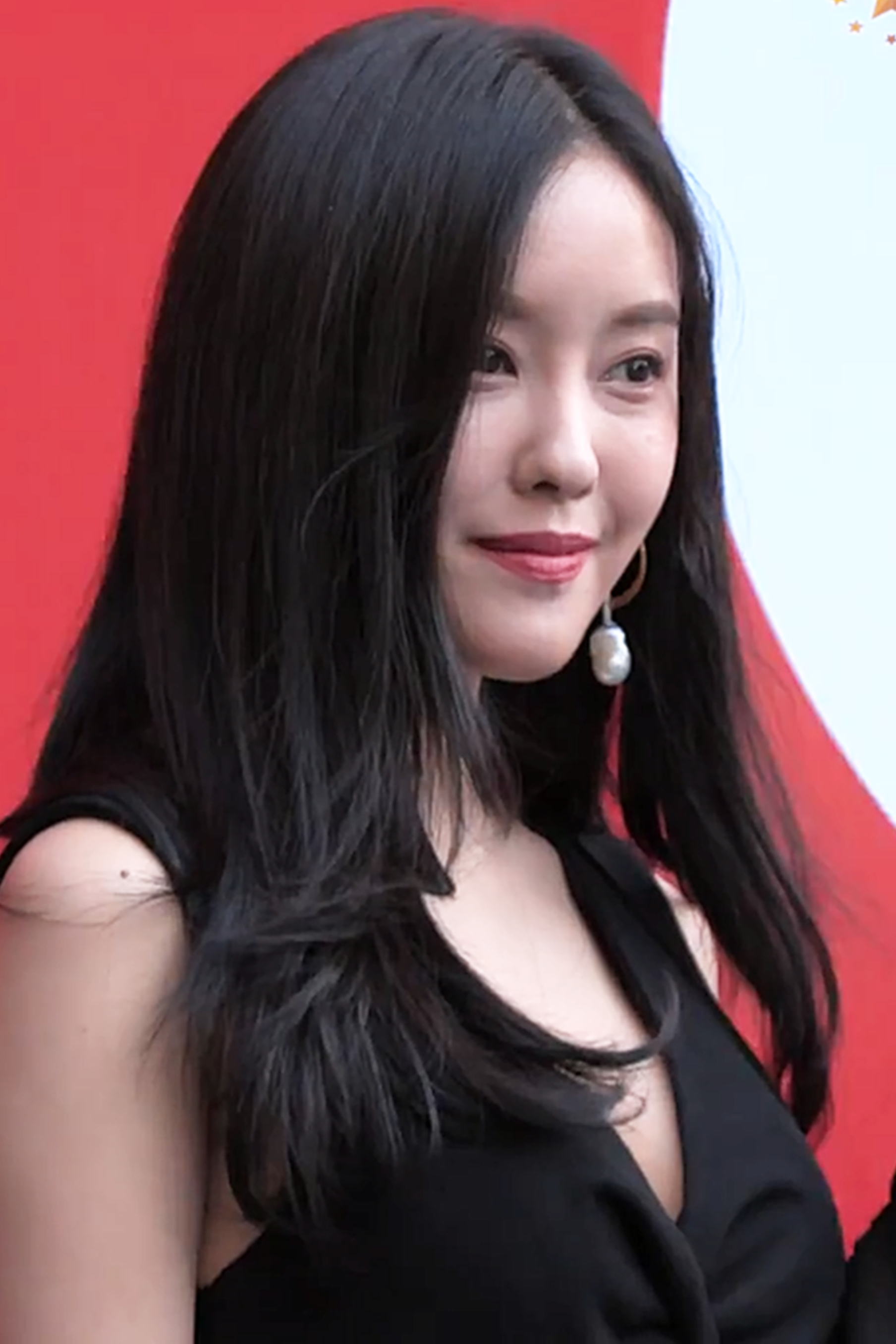 Hyomin during the 2019 S/S Hera Seoul Fashion Week on October 19, 2018.